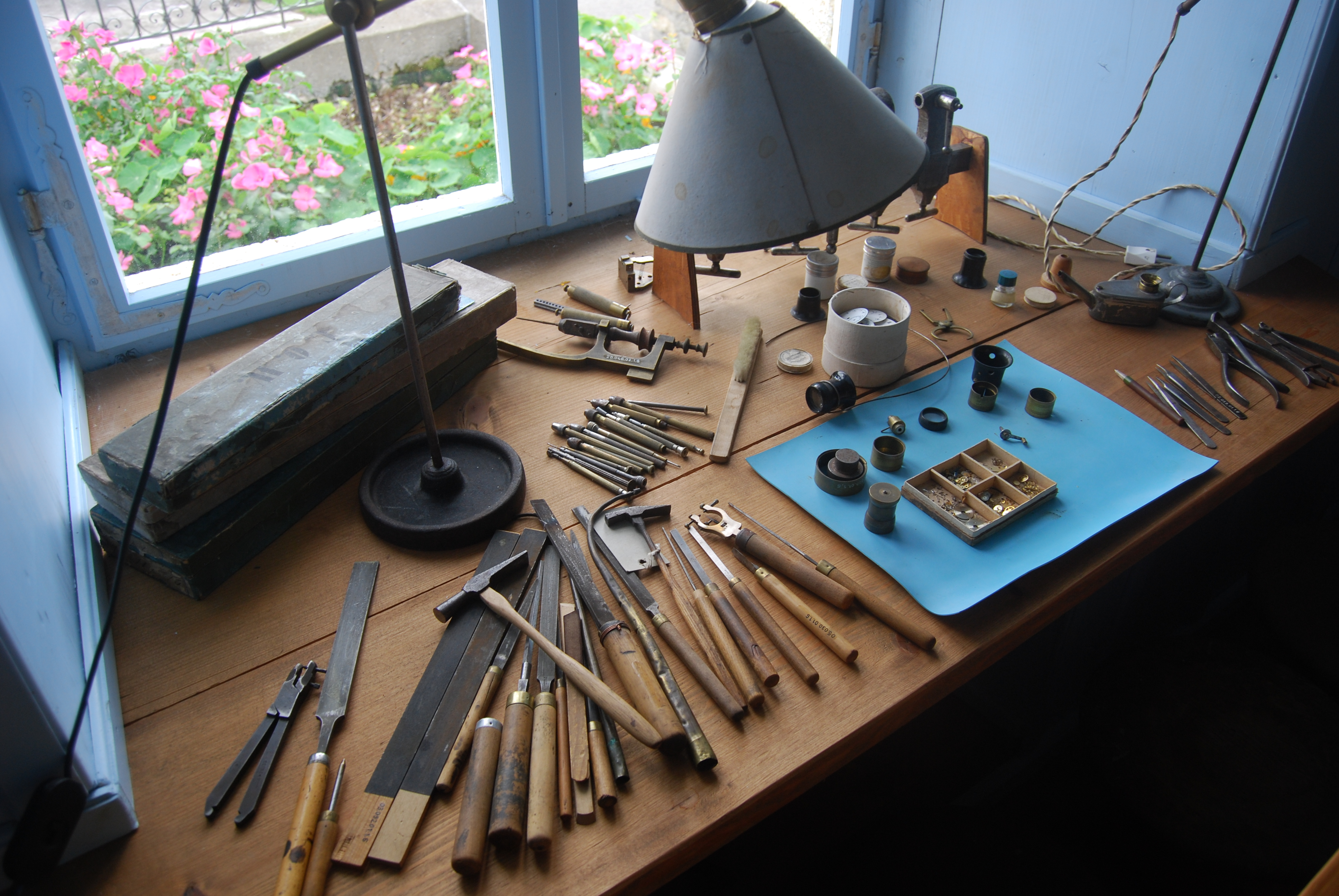 Watch maker instruments in the Jurassic Rural Museum at Les Genevez, canton of Jura, Switzerland